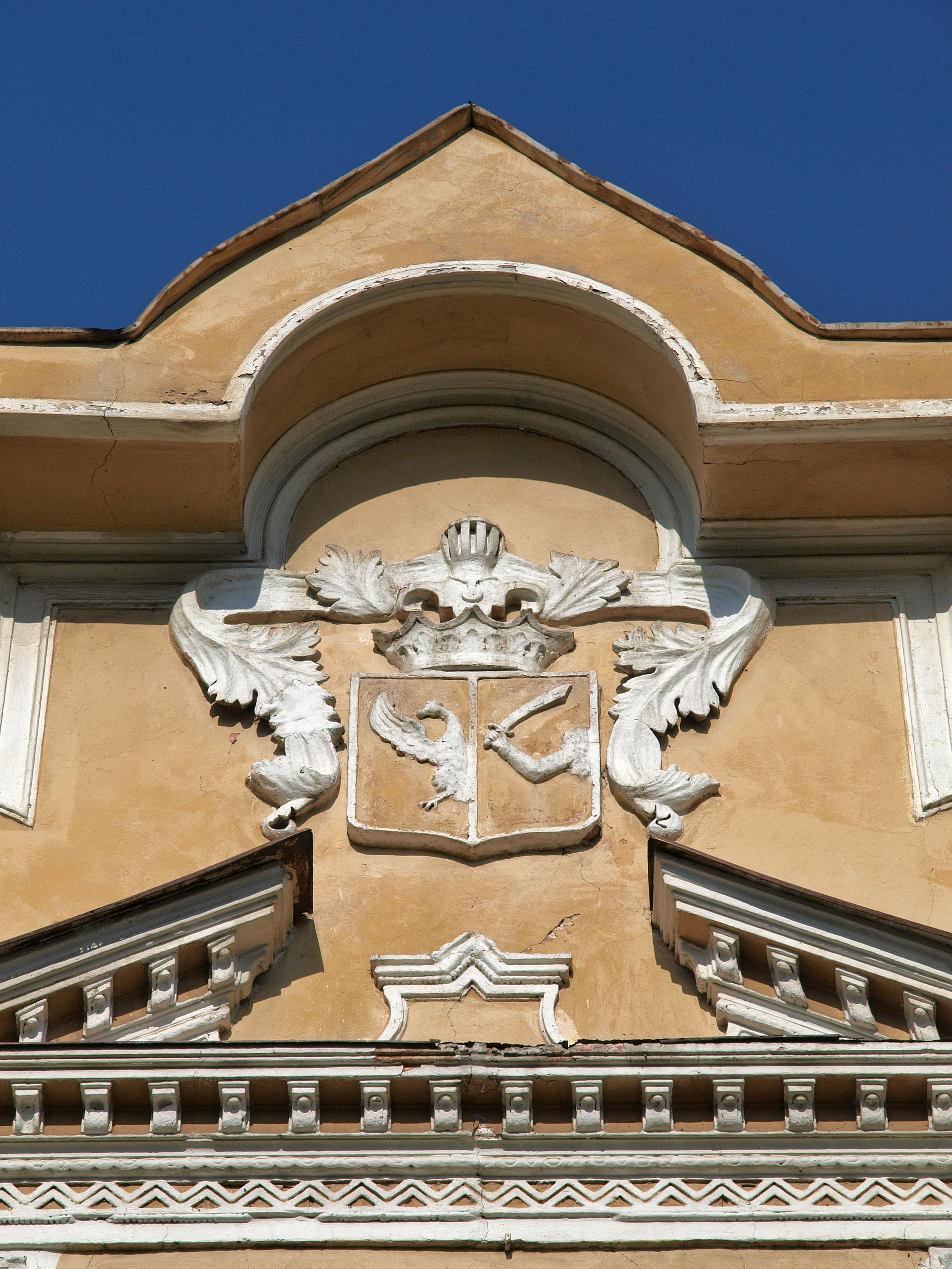 Main hall of Altufyevo estate. Detail of gables. The coat of arms of Zherebtsov family (the owners in mid-19th century), it is also identical to the COA of Pleshcheev family.